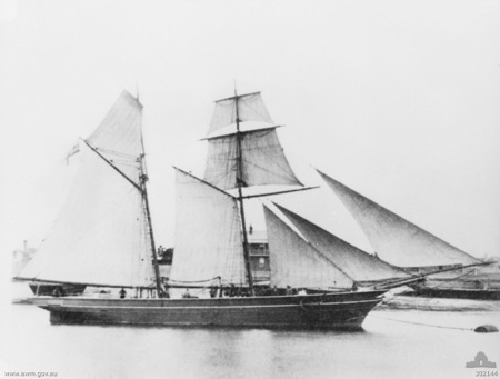 Photograph of British sailing schooner HMS Beatrice in the government yard at Port Adelaide.